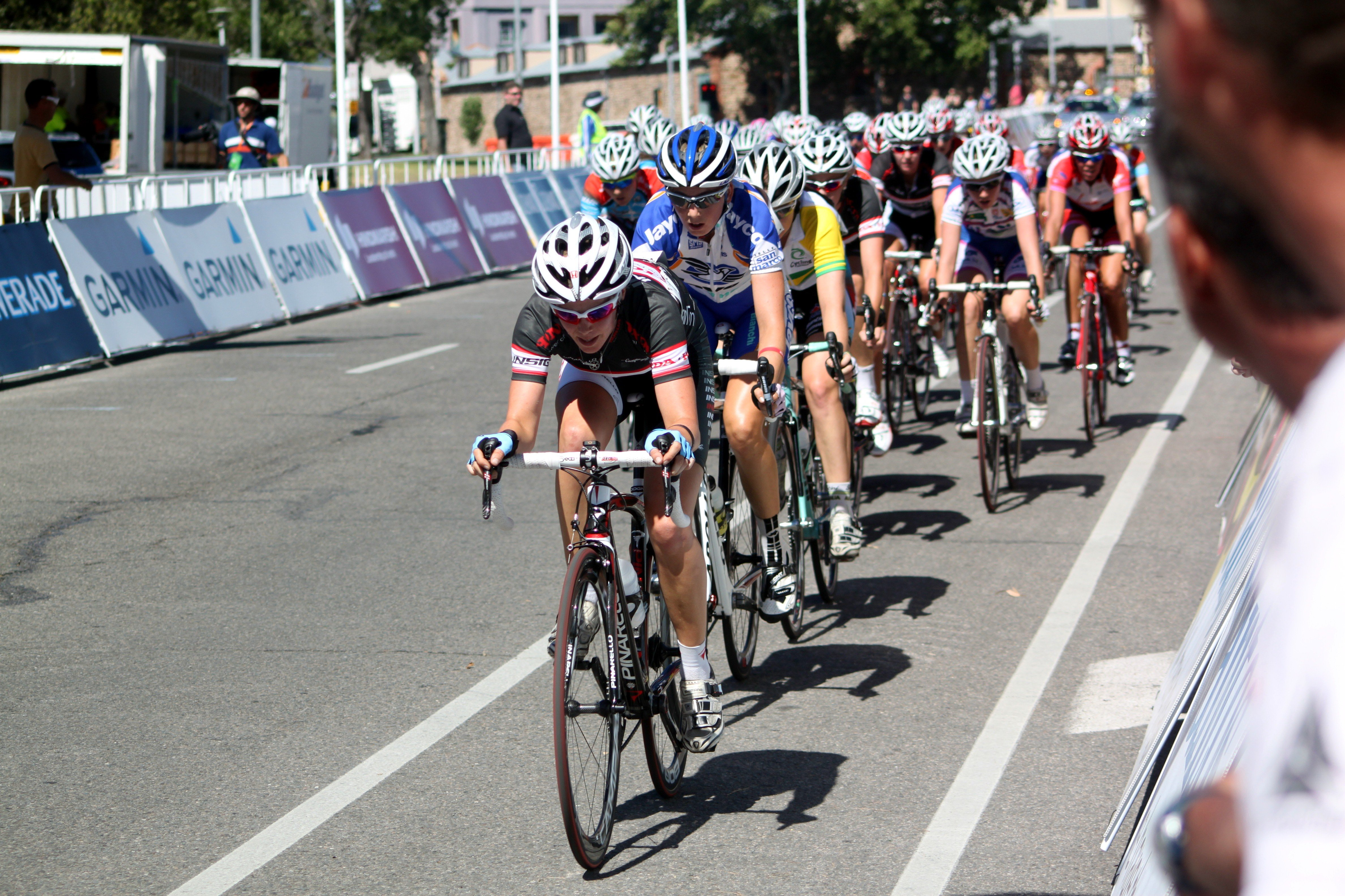 Megan Dunn of Dubbo leading the peloton at the 2011 Renditions Homes Santos Cup in Adelaide.